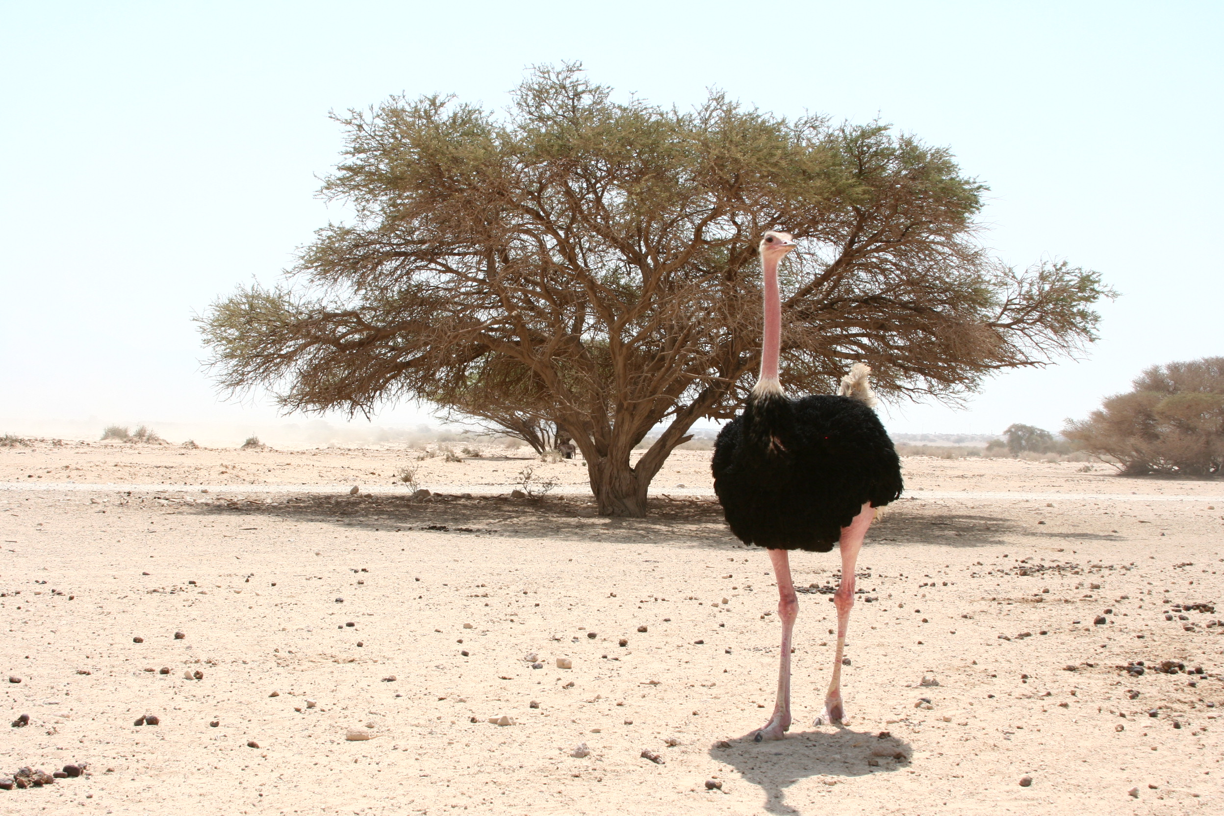 Male Ostrich at Yotvata Hai Bar, Israel